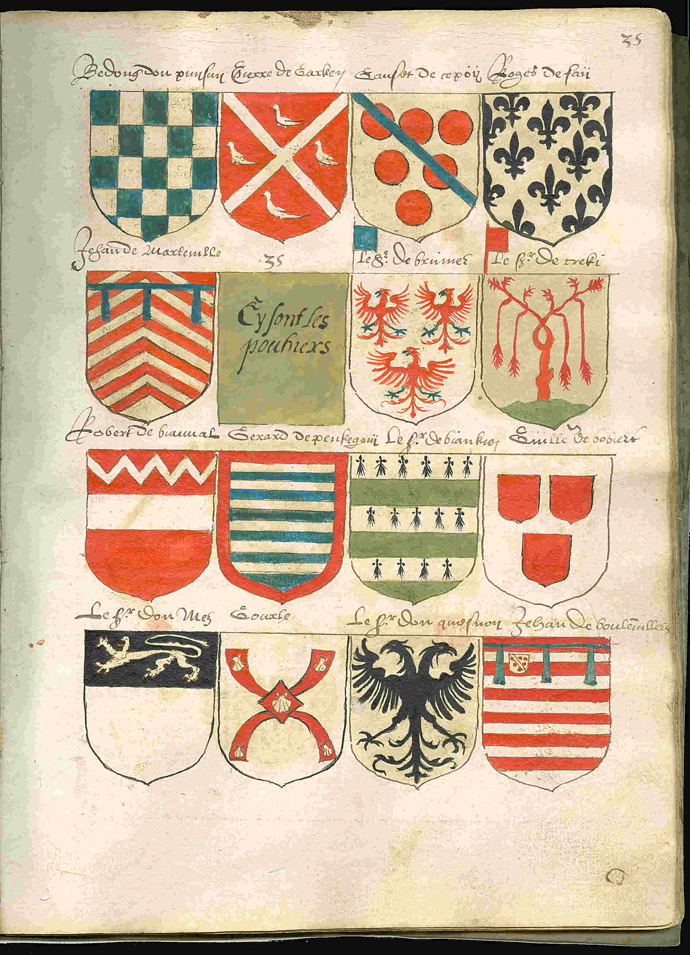 Page 35 from a copy of the Beyeren armorial / Wapenboek Beyeren from ca. 1600. The original Beyeren armorial from 1405 can be viewed at the website of the KB